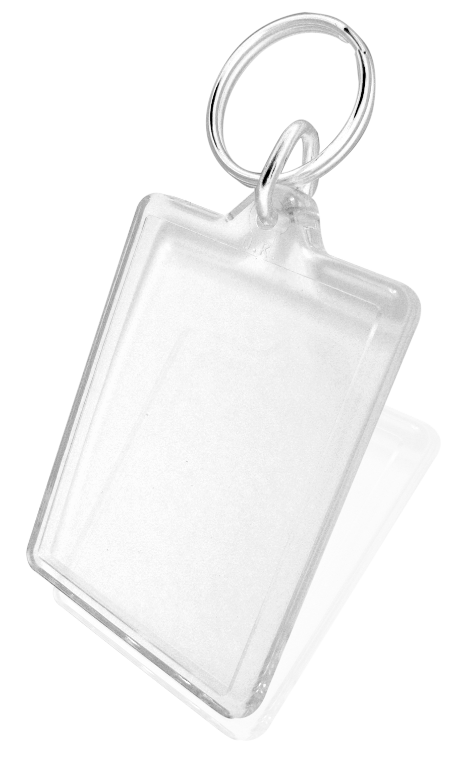 metal, looped keyring with transparent plastic fob.